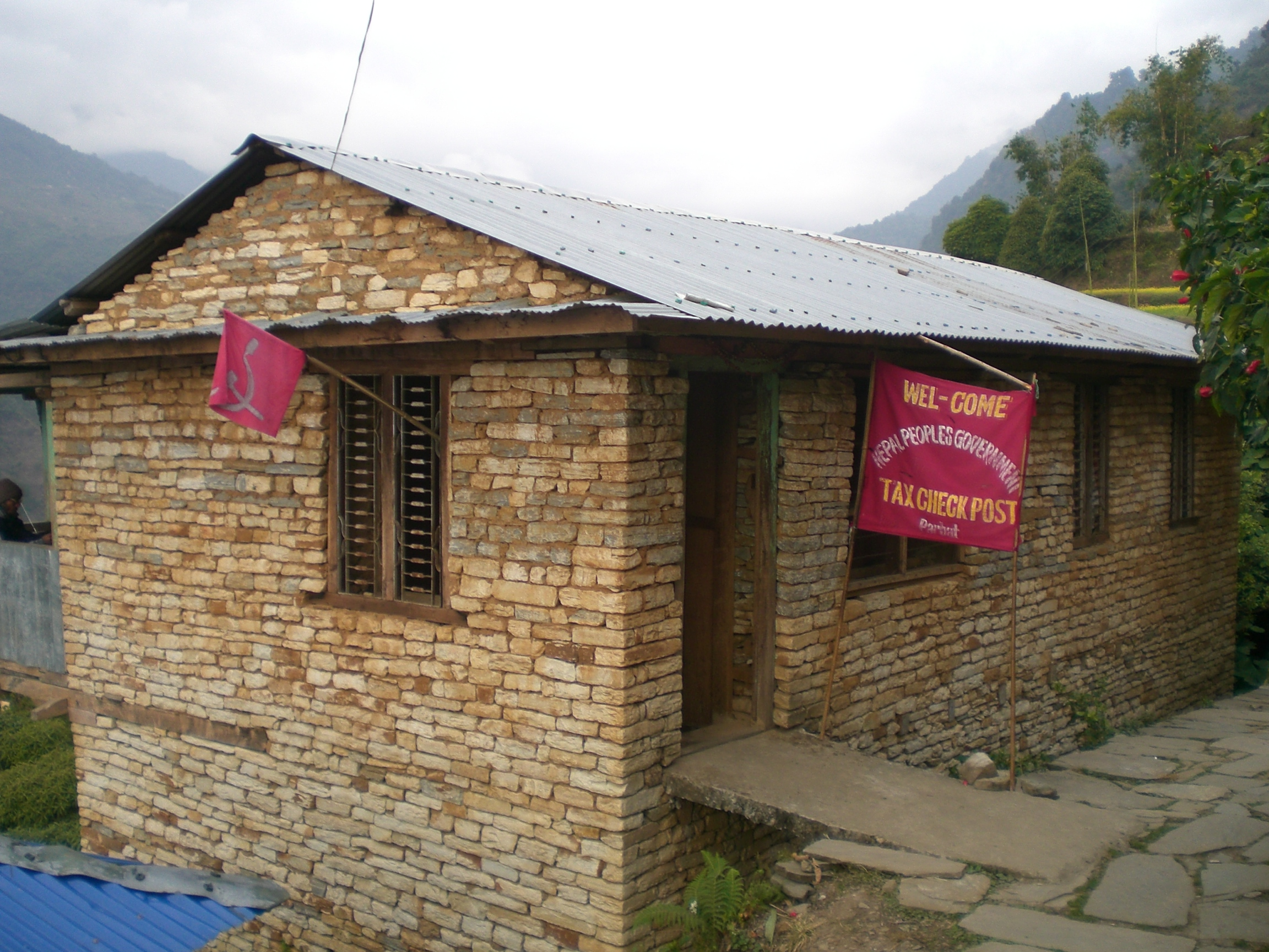 The maoist control checkpoint in the Annapurna mountains